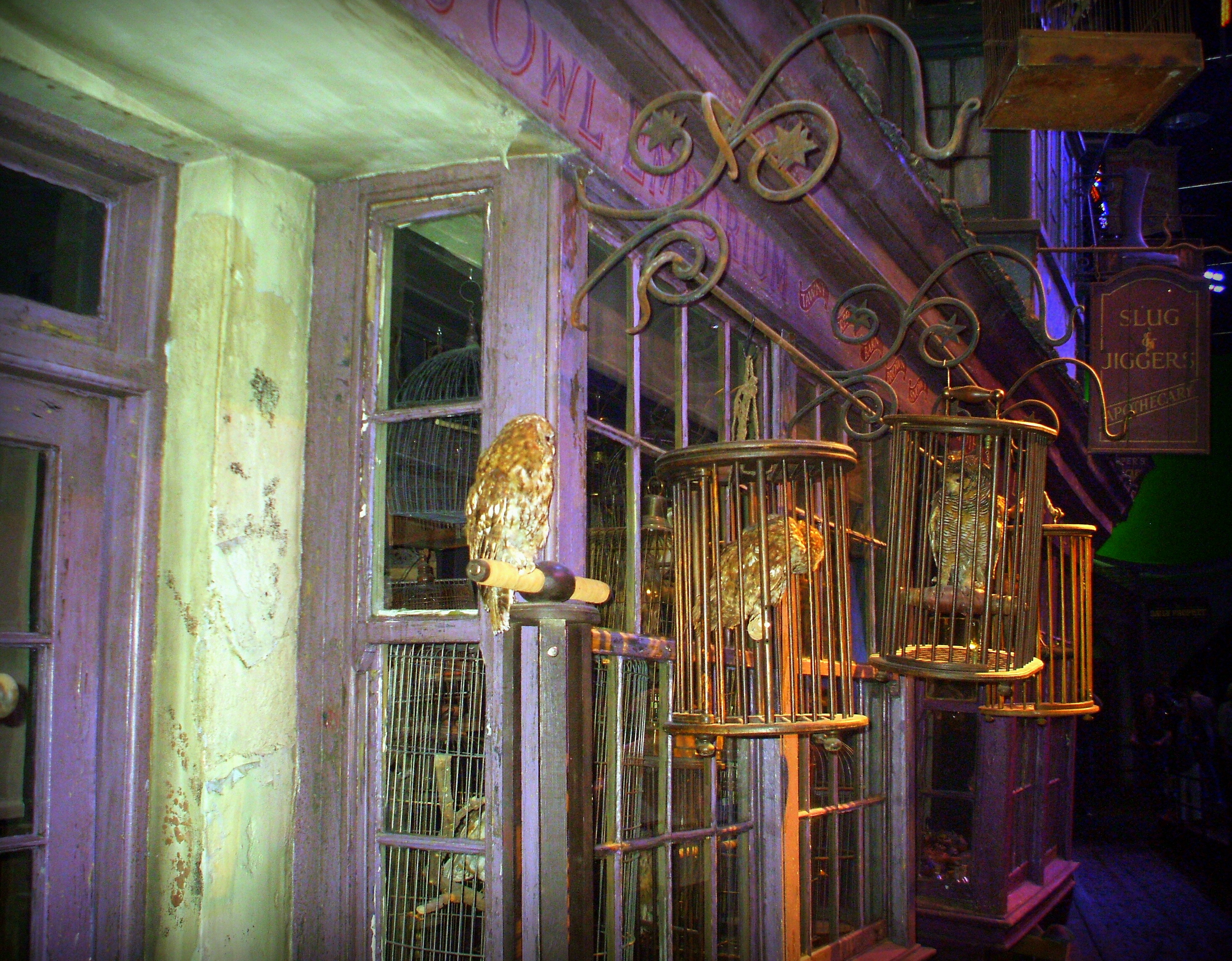 Eeylop's Owl Emporium, Diagon Alley. Harry Potter film set at Warner Bros. Studios, Leavesden, UK